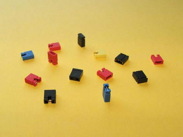 A Jumper